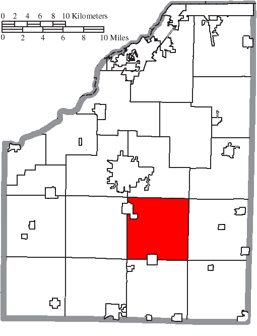 Map of the municipal and township boundaries of Wood County, Ohio, United States, as of the 2000 census, with the location of Portage Township highlighted. Township borders are shown only in unincorporated areas in order to differentiate incorporated and unincorporated areas more clearly.